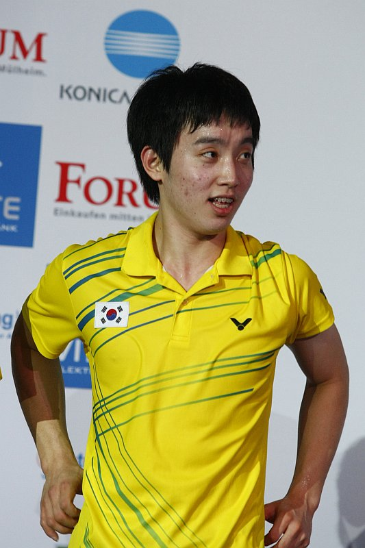 Kim Sa Rang